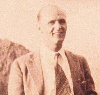 photo of Forrest Mars, Sr.